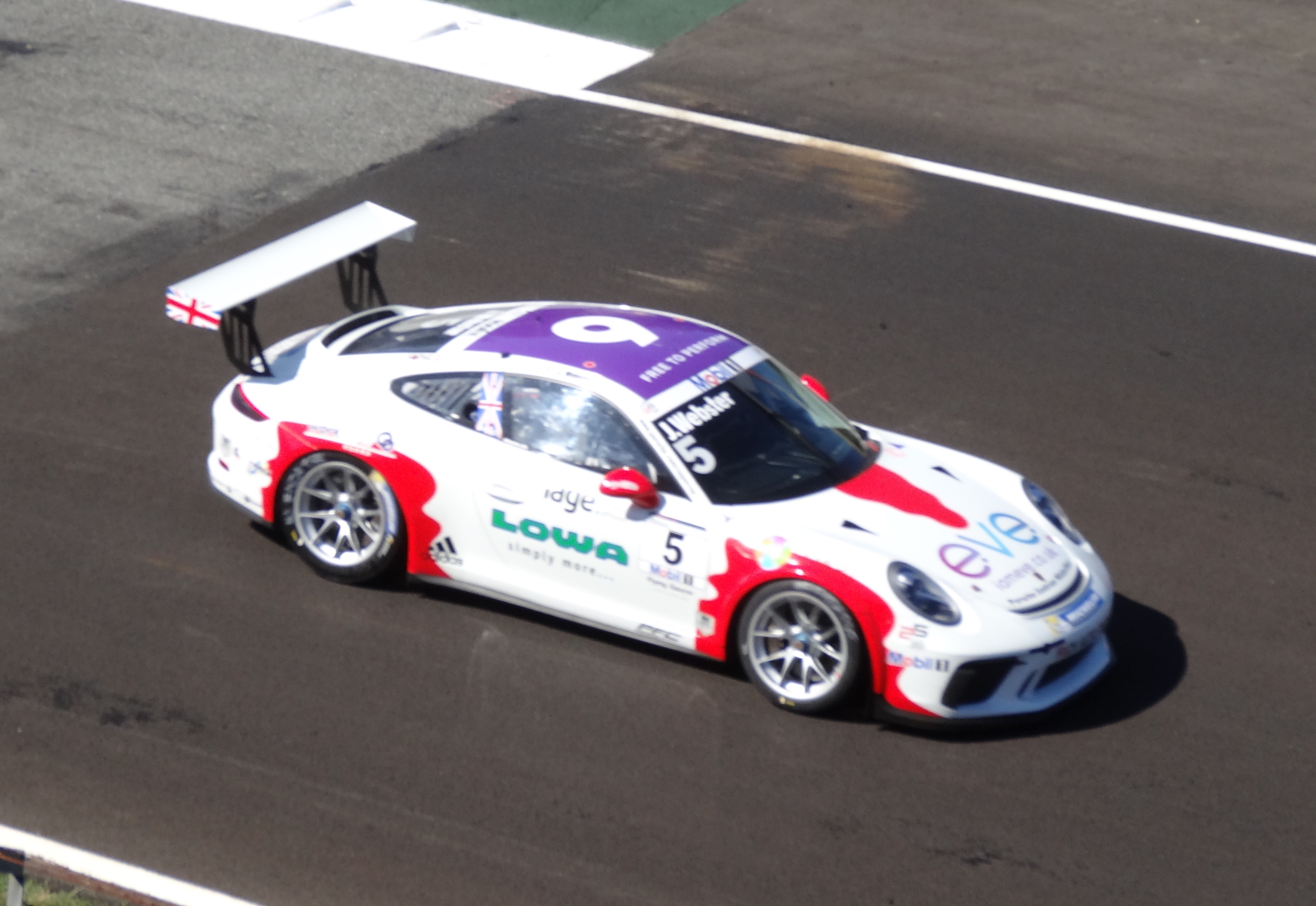 Josh Webster, Porsche Supercup, Monza 2017